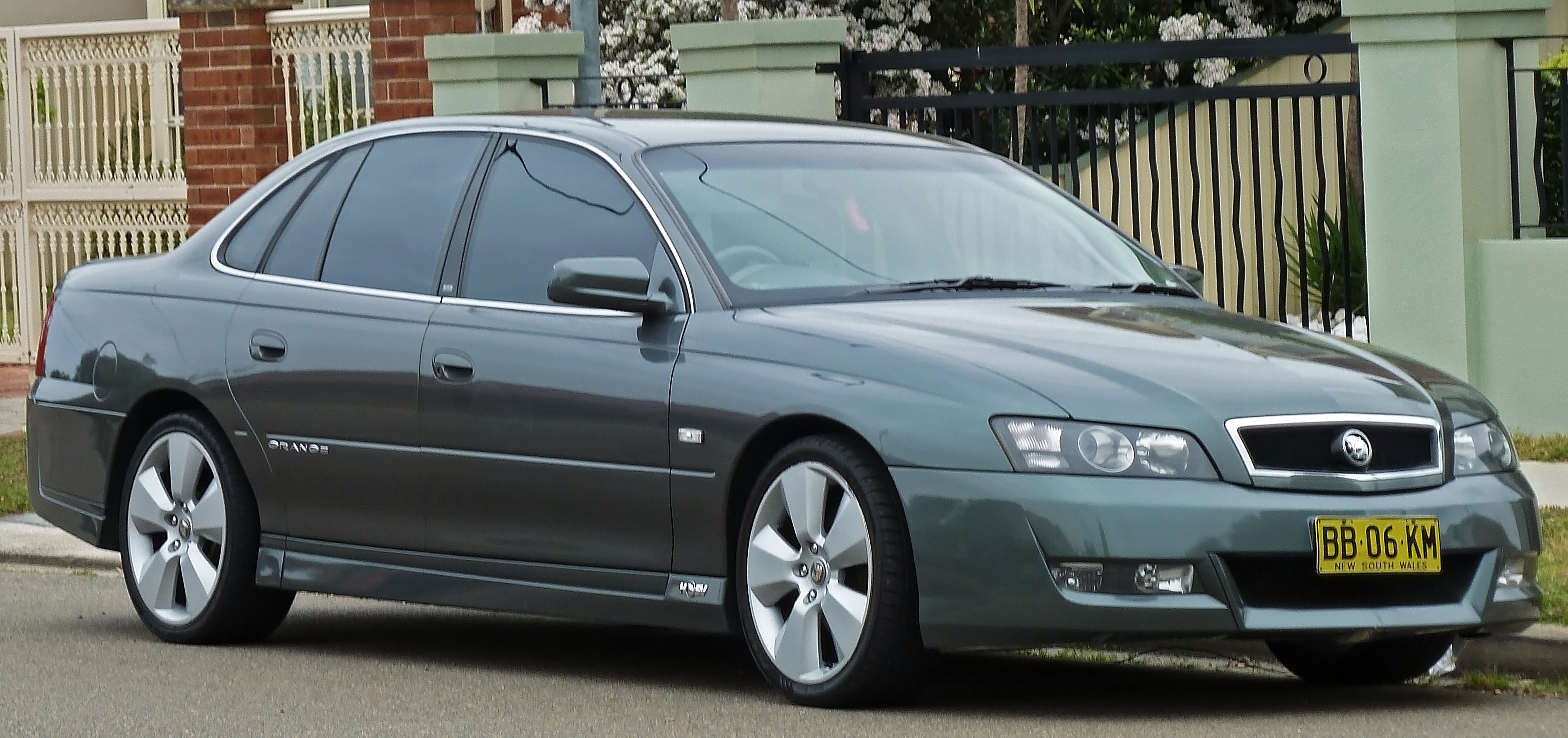 2003–2004 HSV Grange (WK) sedan. Photographed in Sans Souci, New South Wales, Australia.